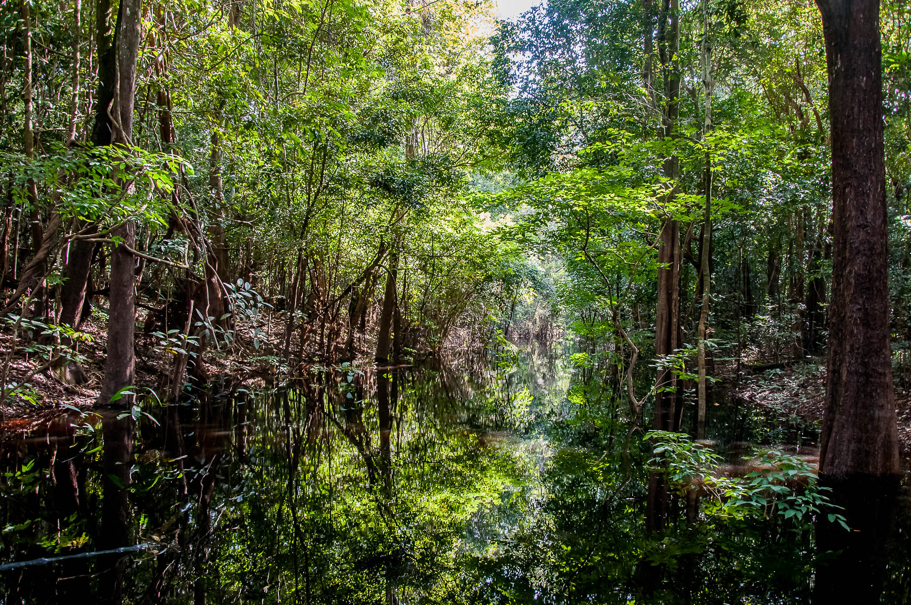 The Amazon rainforest near Manaus